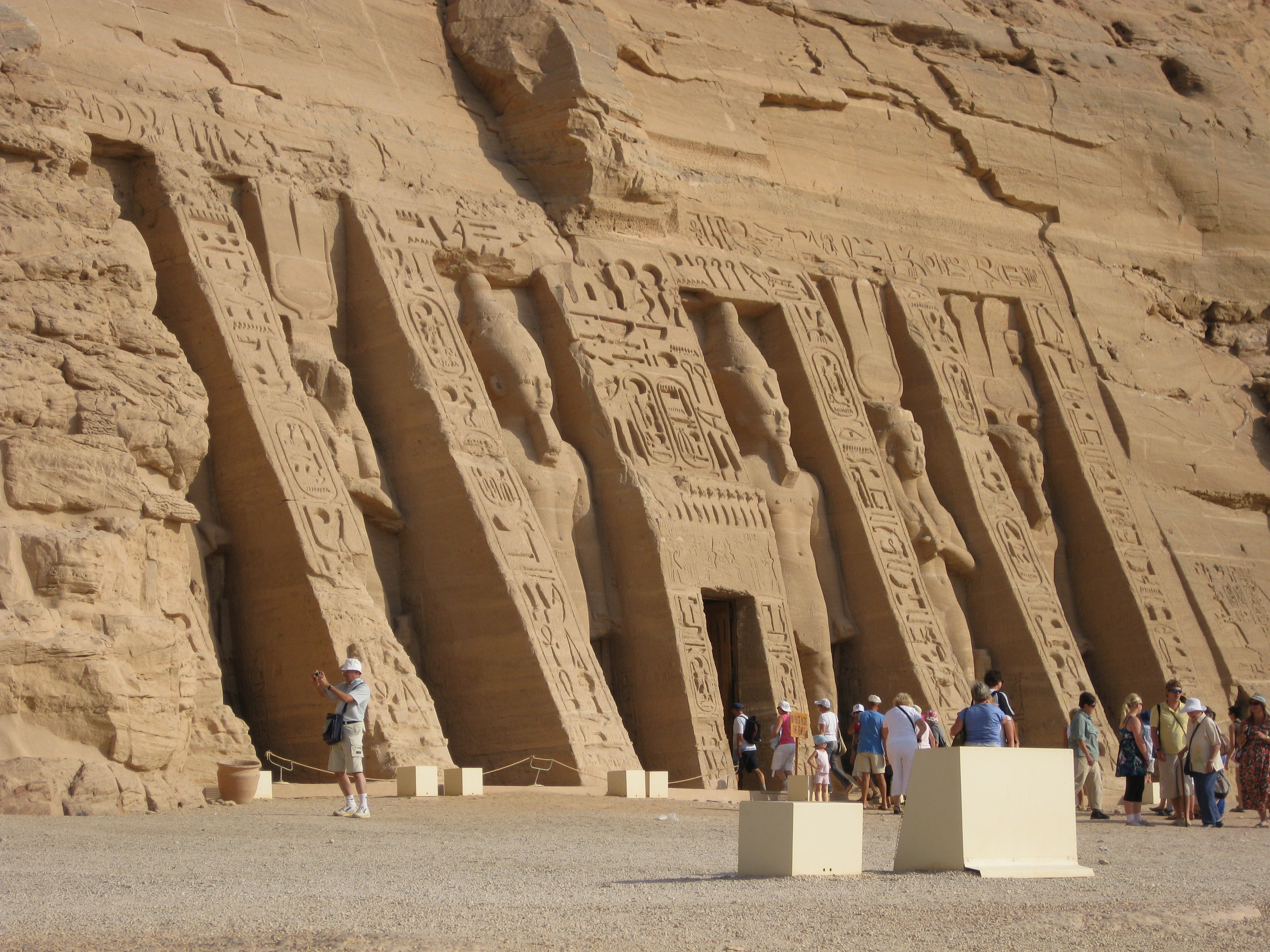 Nefertari Temple in Abu Simbel